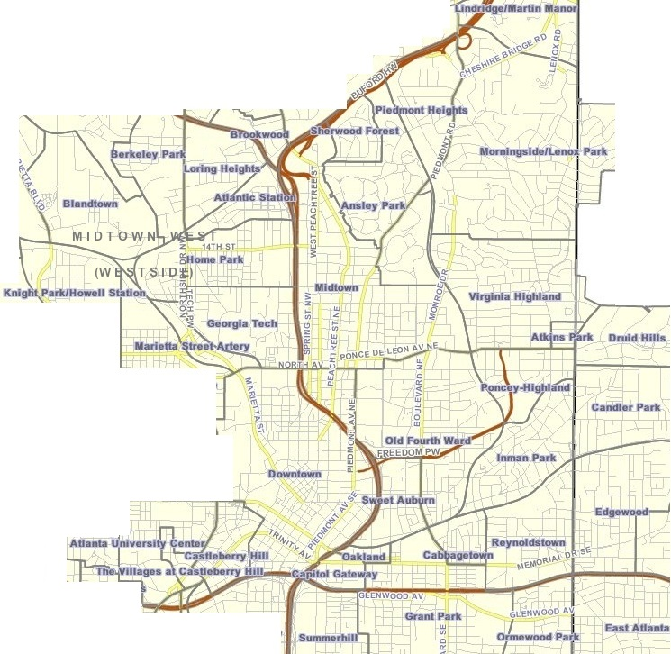 Intown Atlanta neighborhoods